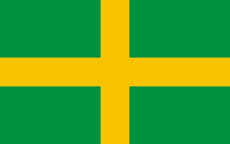 Flag of Cruzilia